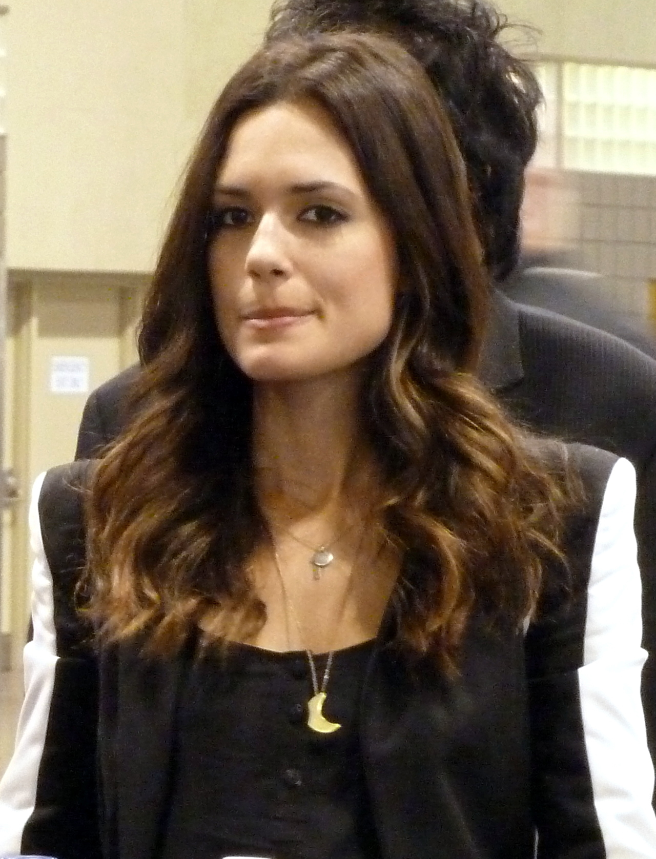 Torrey DeVitto from The Vampire Diaries in 2012 Wizard World Toronto.